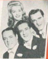 Merry Macs